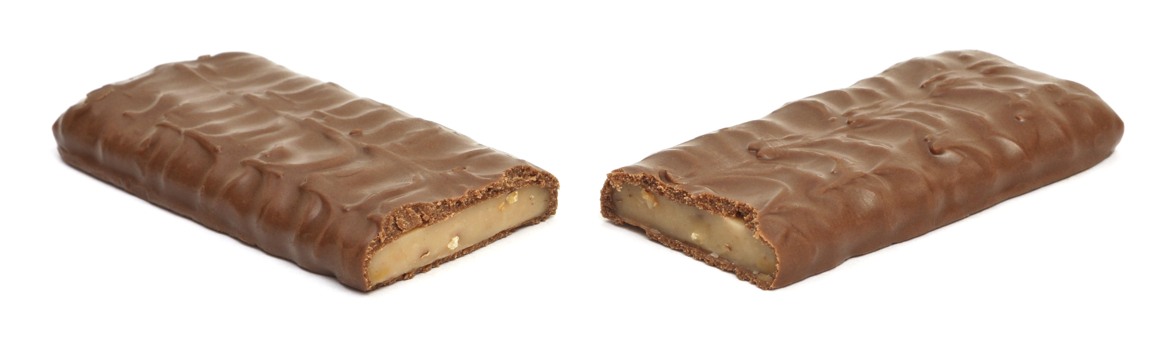 A Heath candy bar, broken in half.